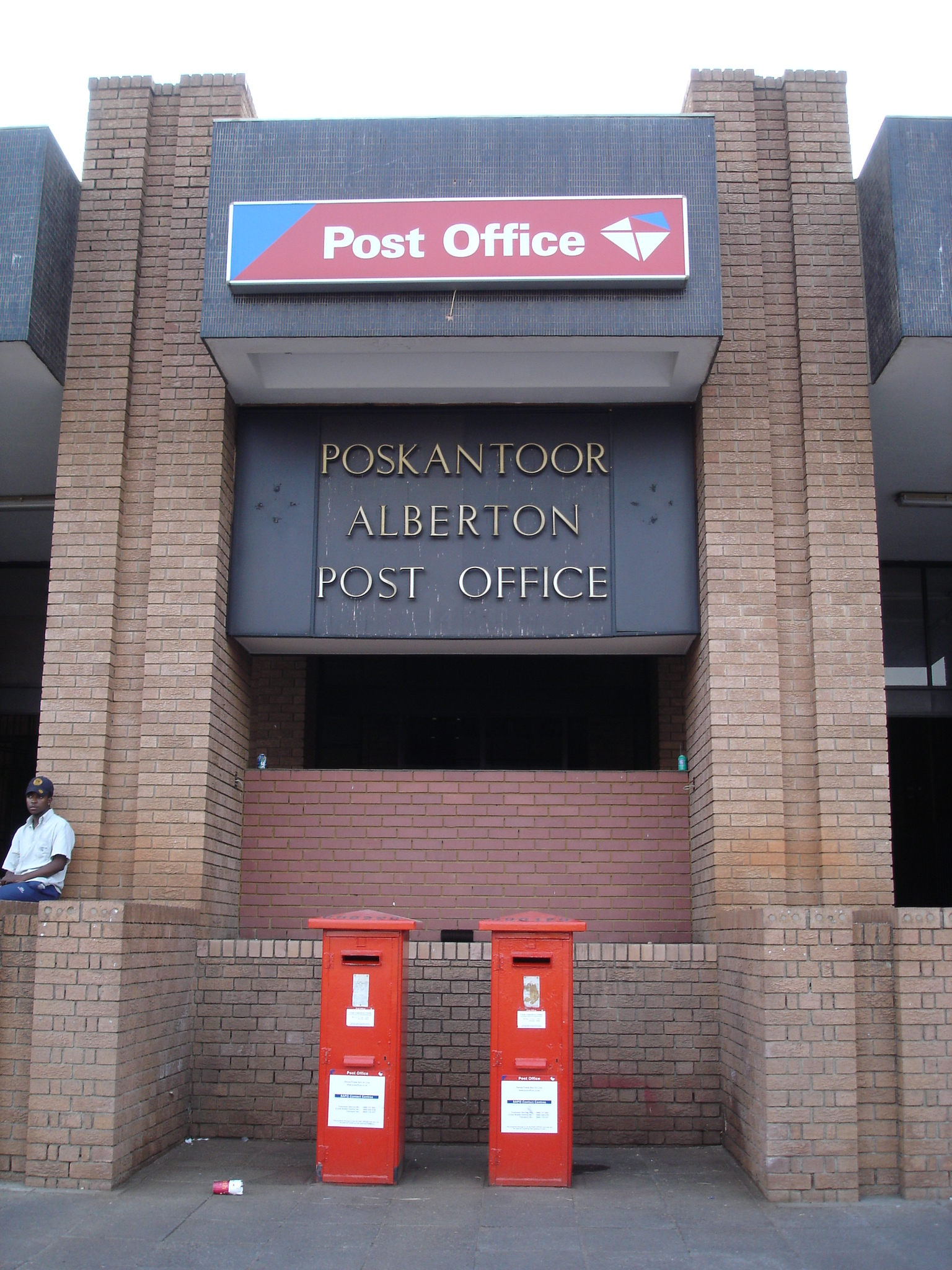 Entrance to Alberton Post Office in Alberton, Gauteng, South Africa